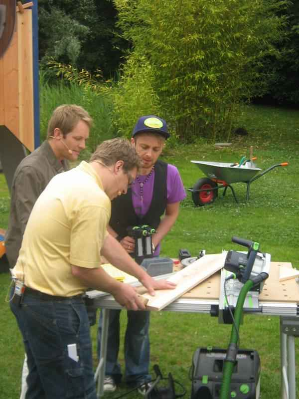 Ross Antony with "ZDF Fernsehgarten" presenter Ernst Marcus Thomas (left) and Tobias Keller (front)